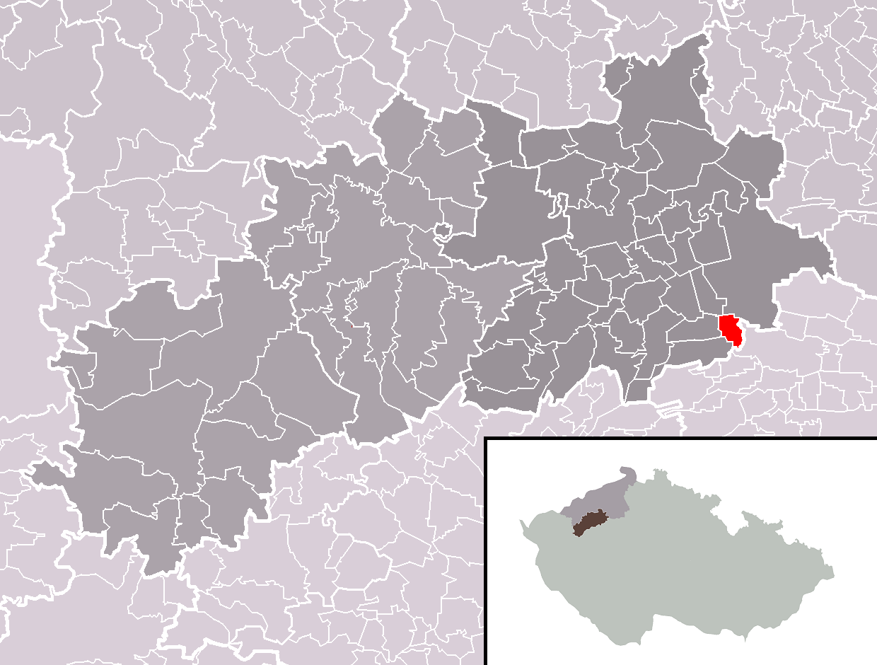 Location of Úherce municipality within Louny District and administrative area of Louny as a Municipality with Extended Competence.